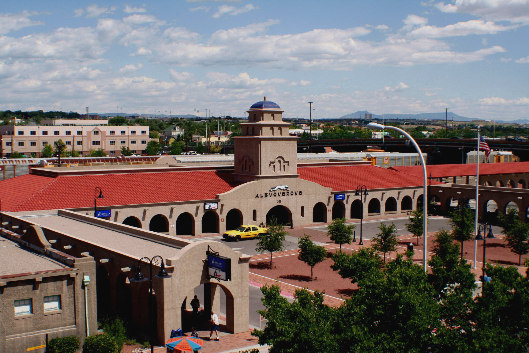 View southeast toward the Manzano mountains with bus depot in foreground from downtown Albuquerque